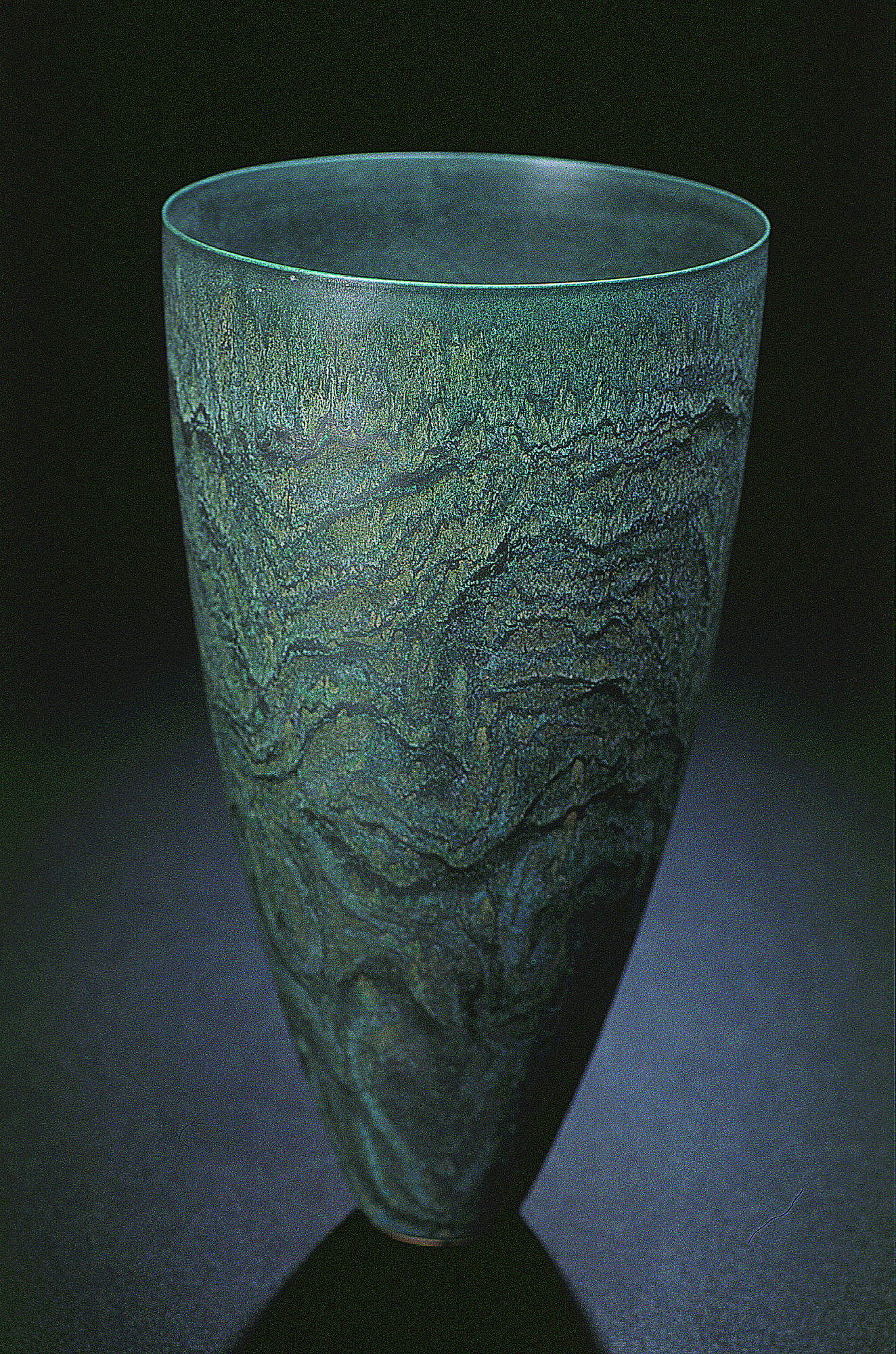 Ceramic Vessel by Pippin Drysdale